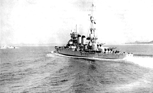 World War II Italian battleship RN Conte di Cavour-Napoli - 1938